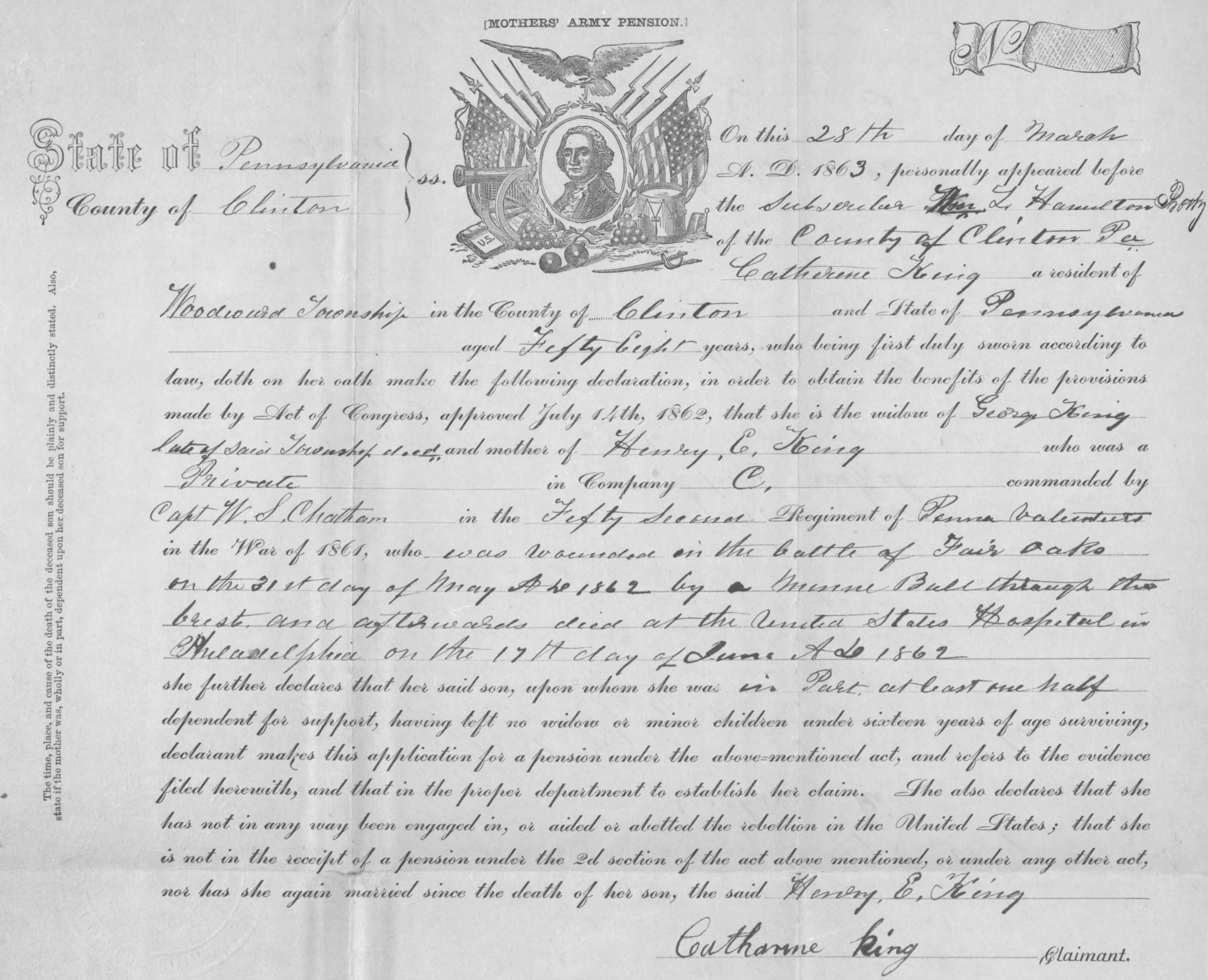 Documentation of fatal chest wound sustained by Pvt. Henry King, Co. C, 52nd Pennsylvania Volunteer Infantry during the Battle of Fair Oaks, Virginia, 1862 (excerpt: "Civil War Widows' Pensions": mothers' pension file of Catharine King, U.S. National Archives).